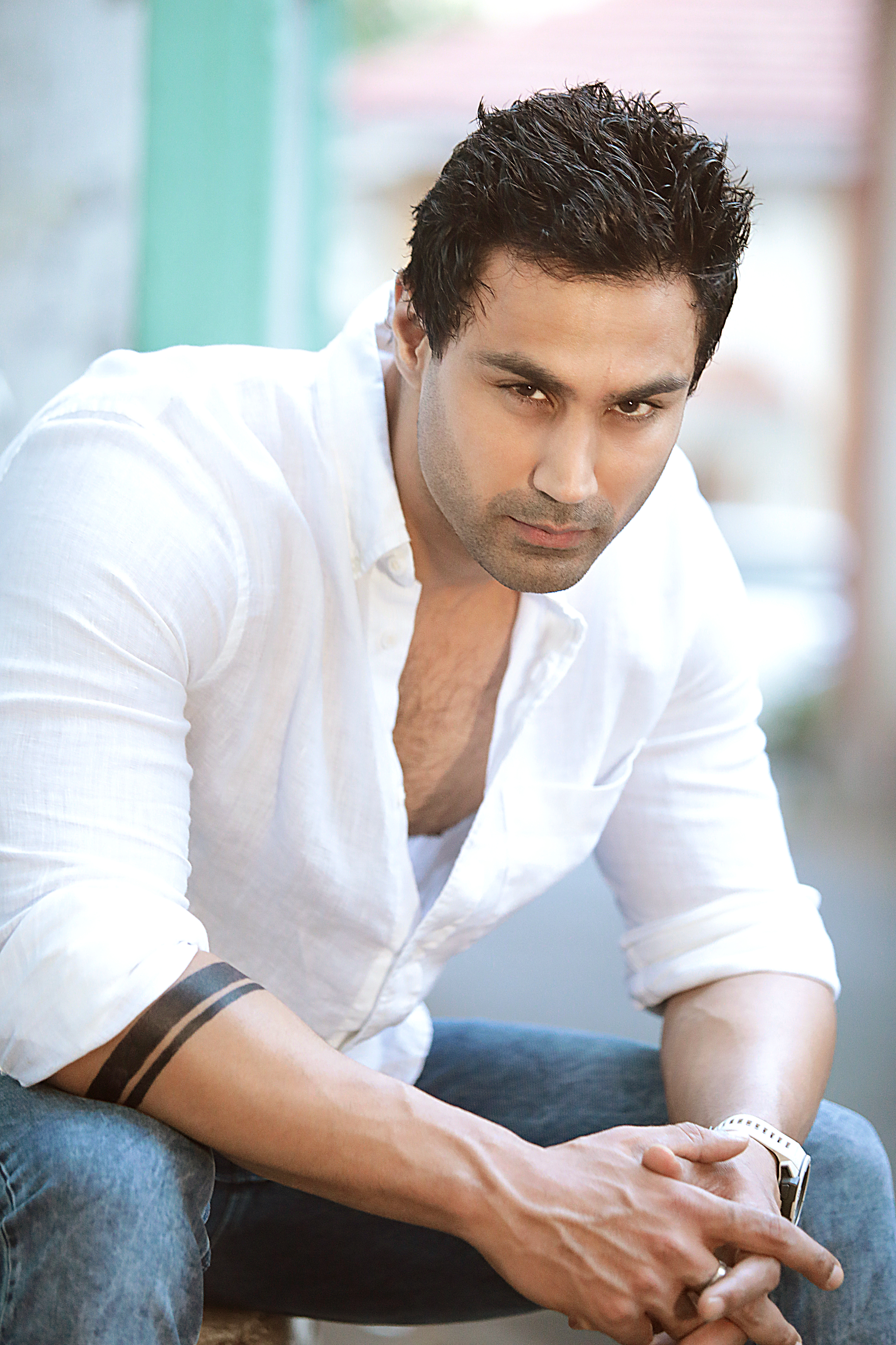 Karan Oberoi KO